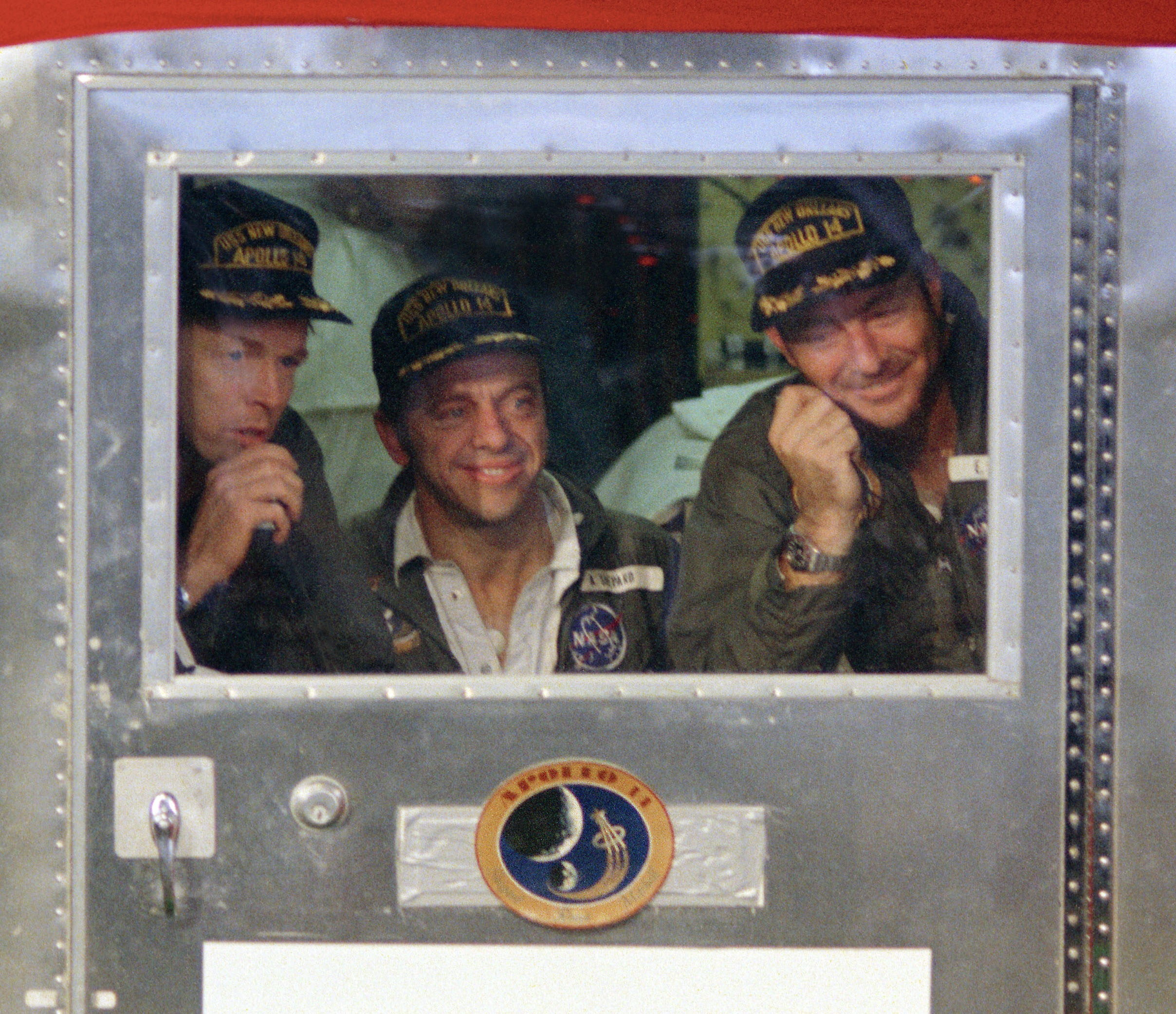 Stu Roosa (left), Al Shepard (center), and Ed Mitchell (right) in the Mobile Quarantine Facility. Roosa is using the microphone to talk to bystanders.